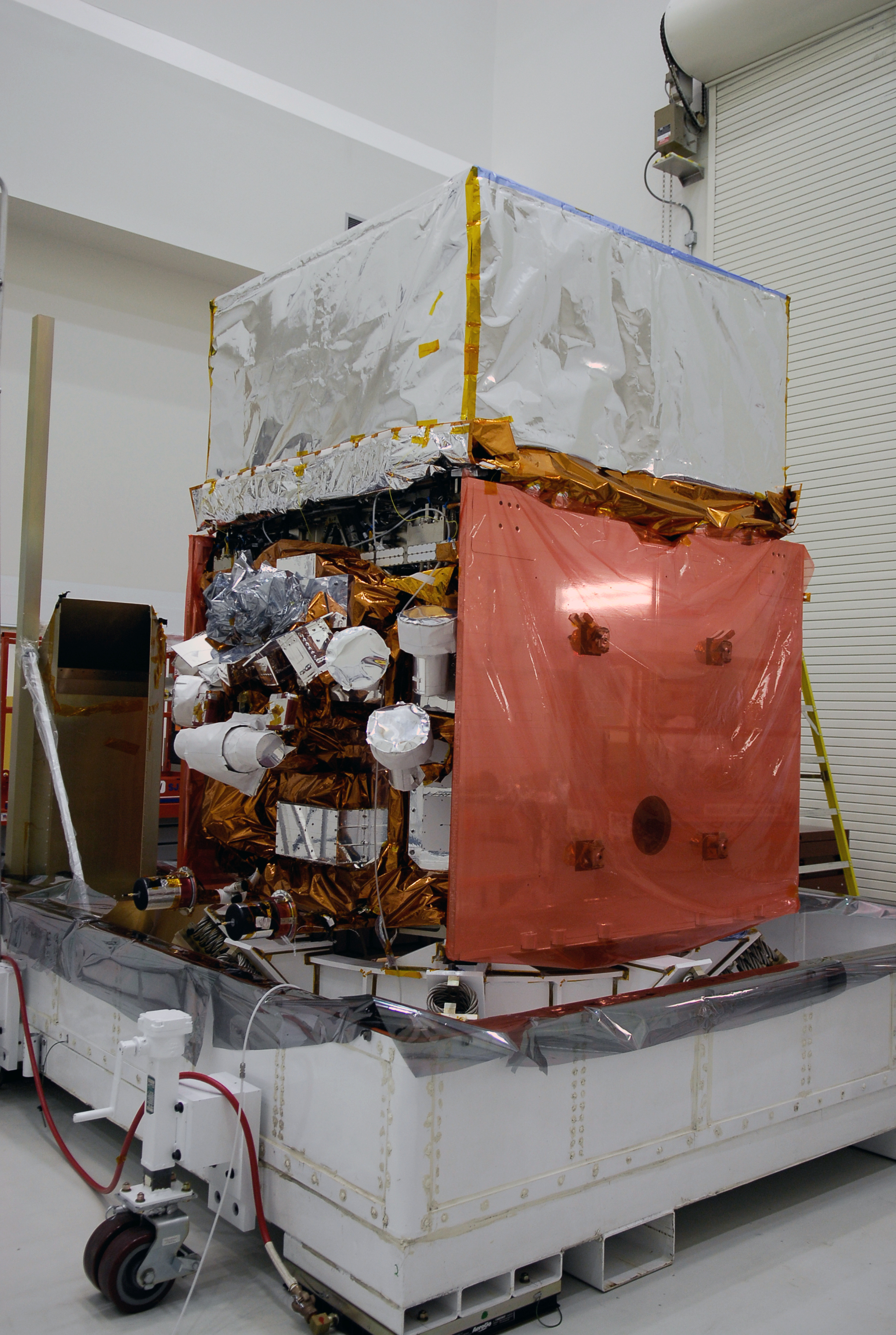 In the Astrotech payload processing facility, NASA's Gamma-Ray Large Area Space Telescope, or GLAST, sits uncovered before its move to a work stand in the facility for a complete checkout of the scientific instruments aboard. The telescope will launch aboard a Delta II rocket May 16 from Launch Pad 17-B on Cape Canaveral Air Force Station. A powerful space observatory, the GLAST will explore the most extreme environments in the universe, and answer questions about supermassive black hole systems, pulsars and the origin of cosmic rays. It also will study the mystery of powerful explosions known as gamma-ray bursts.